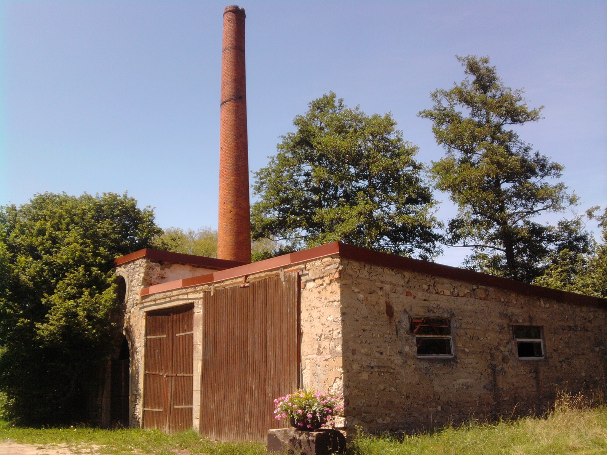 Old watermill of Bliesbruck, in Moselle (France), with his chimney, Middle Ages.